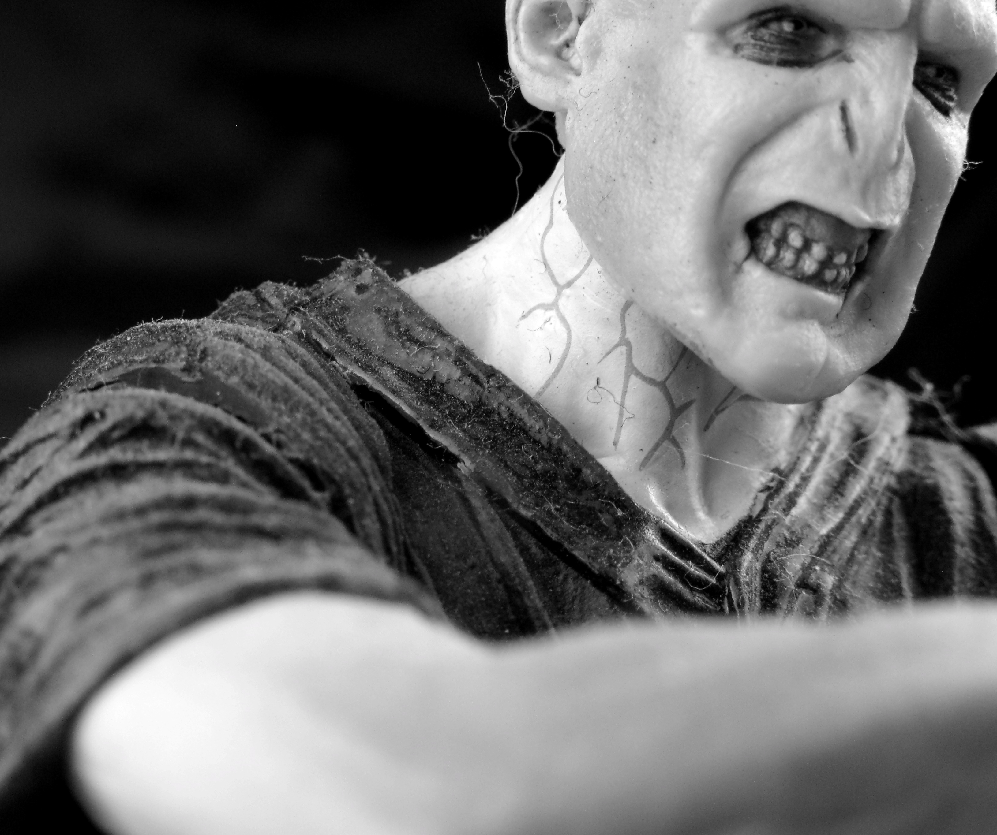 A figure of Lord Voldemort made by artist Kevindooley